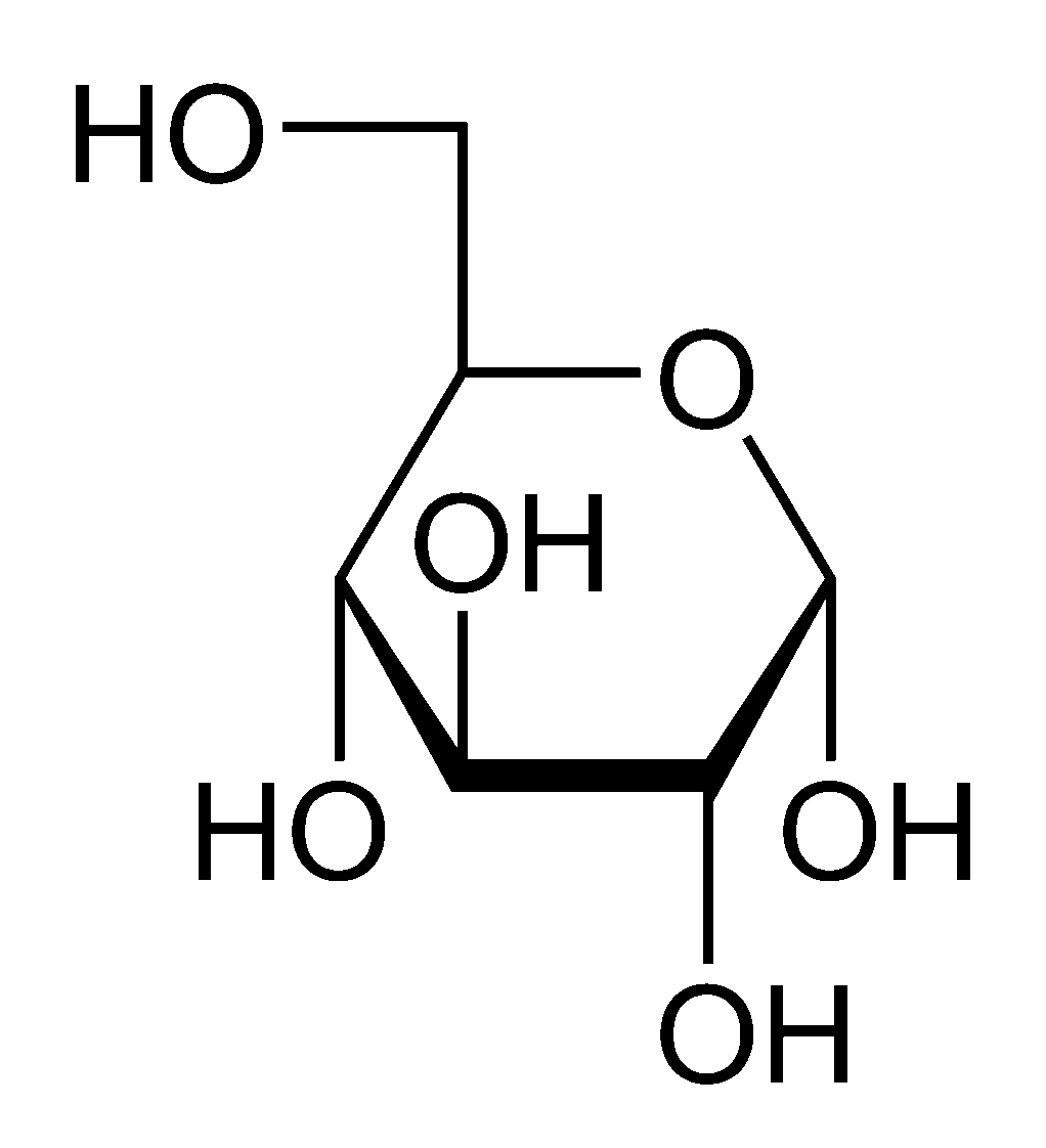 Haworth formula of beta-D-glucose